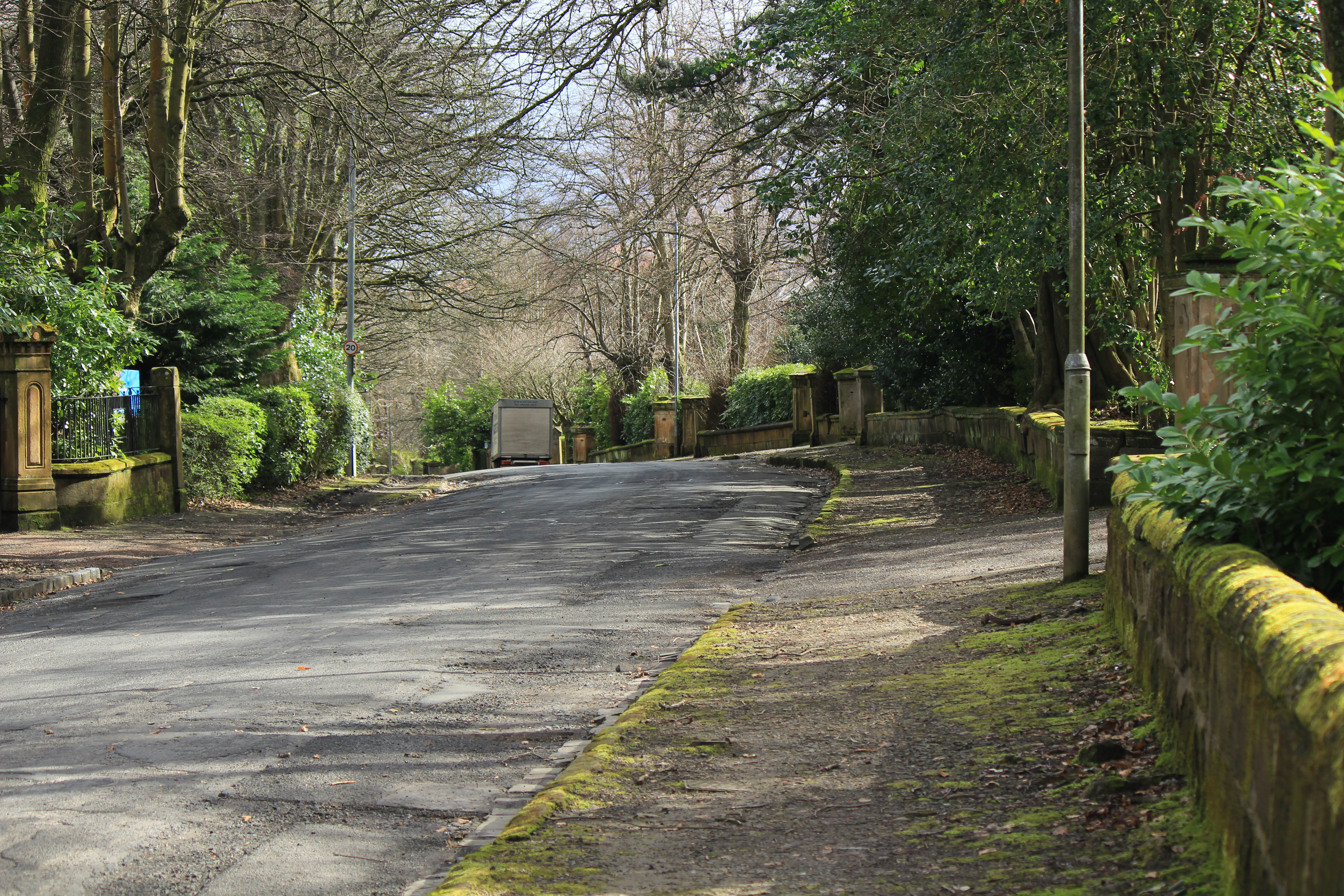 Main Road,Castlehead